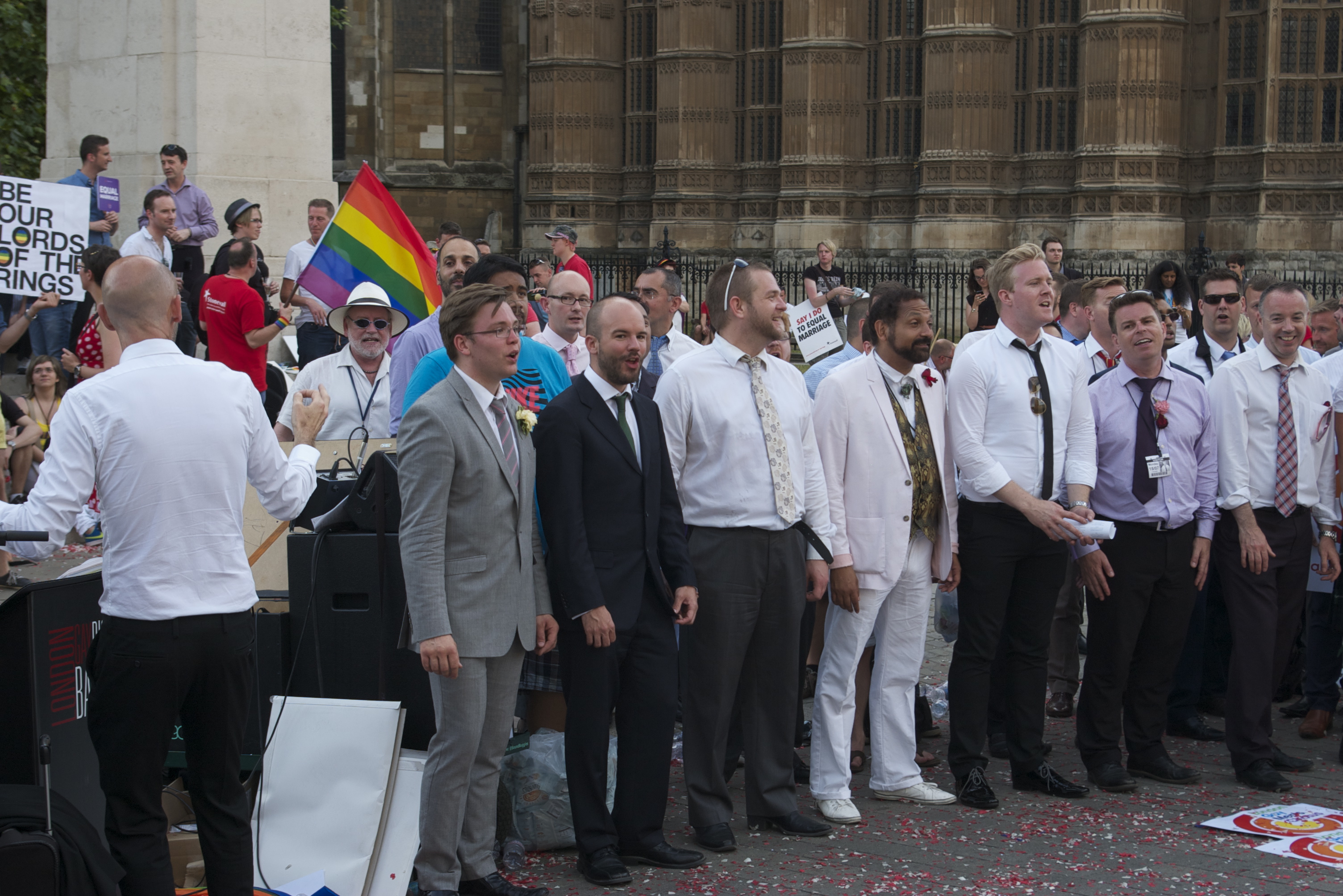 Members of the London Gay Men's Chorus outside Parliament to celebrate the passage at Third Reading of the Marriage (Same Sex Couples) Bill.